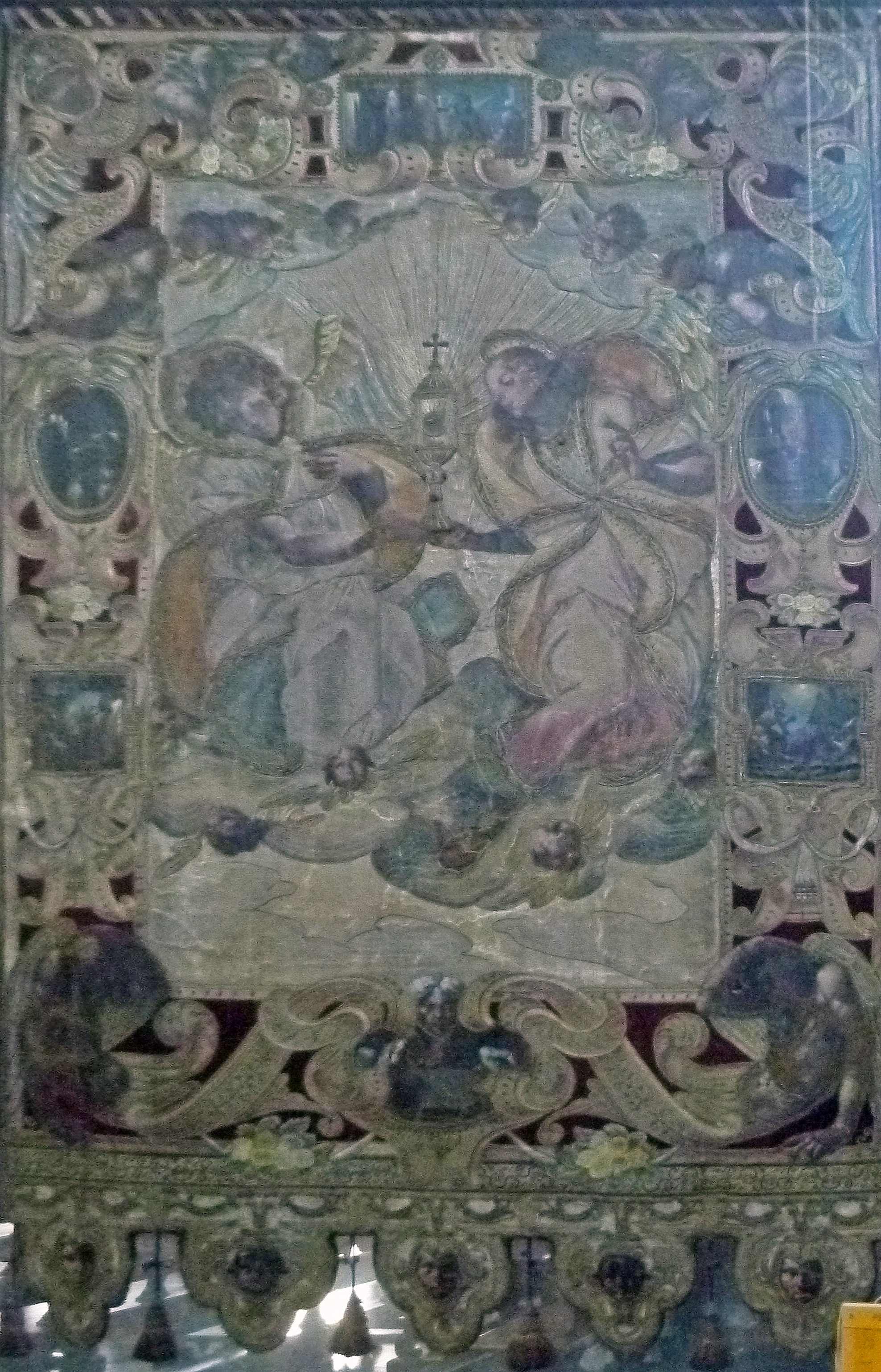 "The St. Abbondio Banner" (1608), ensign painted by Pier Francesco Mazzucchelli, called Il Morazzone (1573-1626); cathedral of Como; Como, Italy